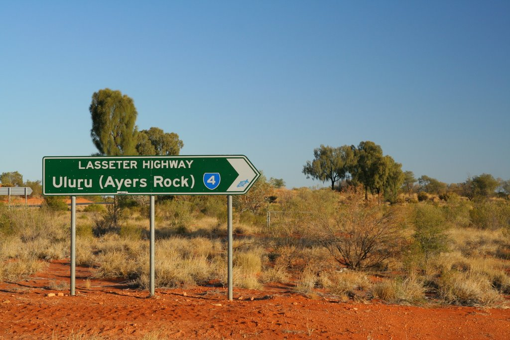 Lasseter Highway near Uluru.